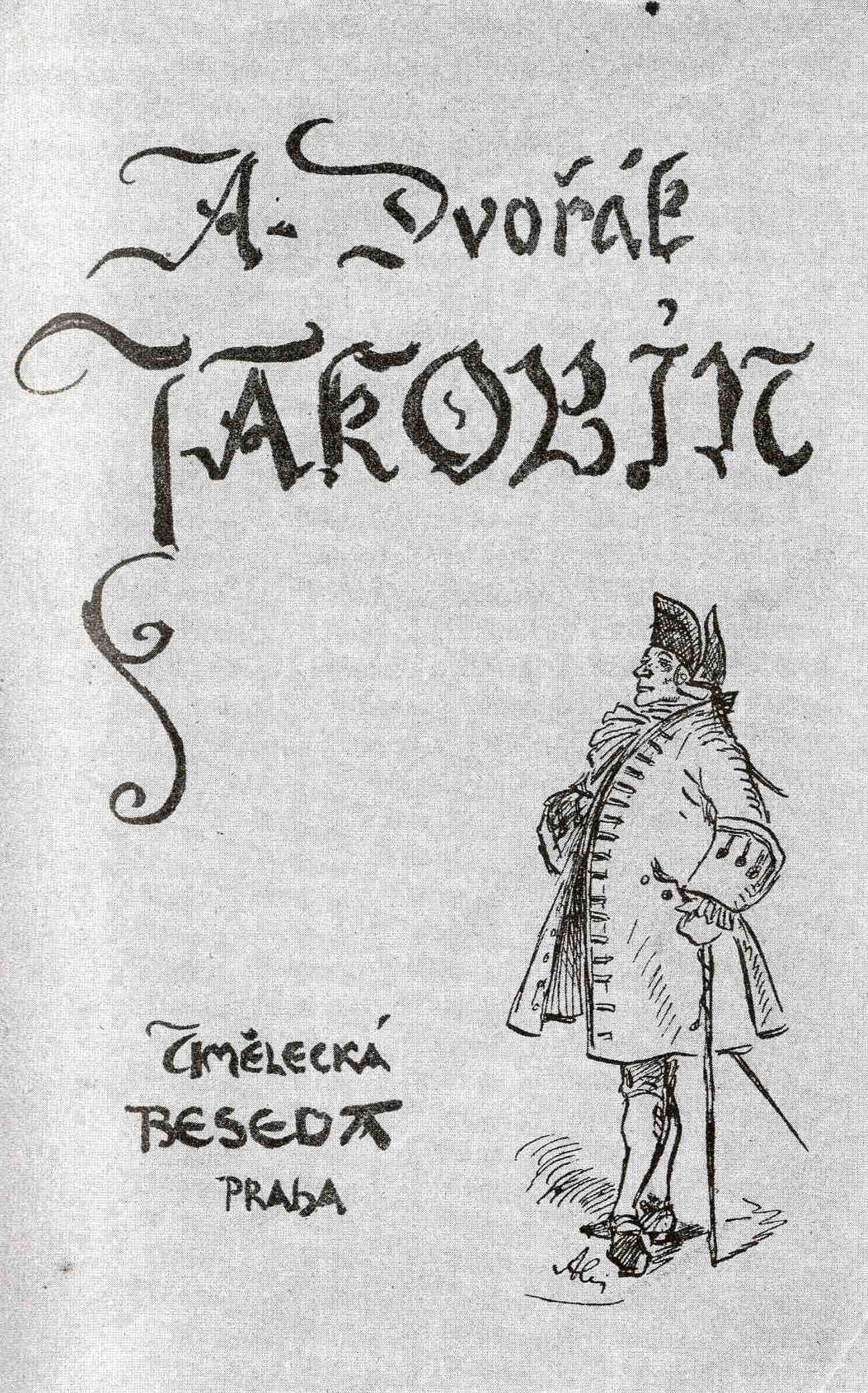 Cover of the piano reduction of Jakobín, pictured by Mikoláš Aleš in 1911